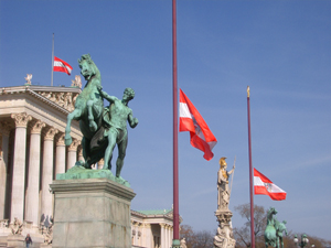 Flags at half-staff in front of House of Parliament in Vienna